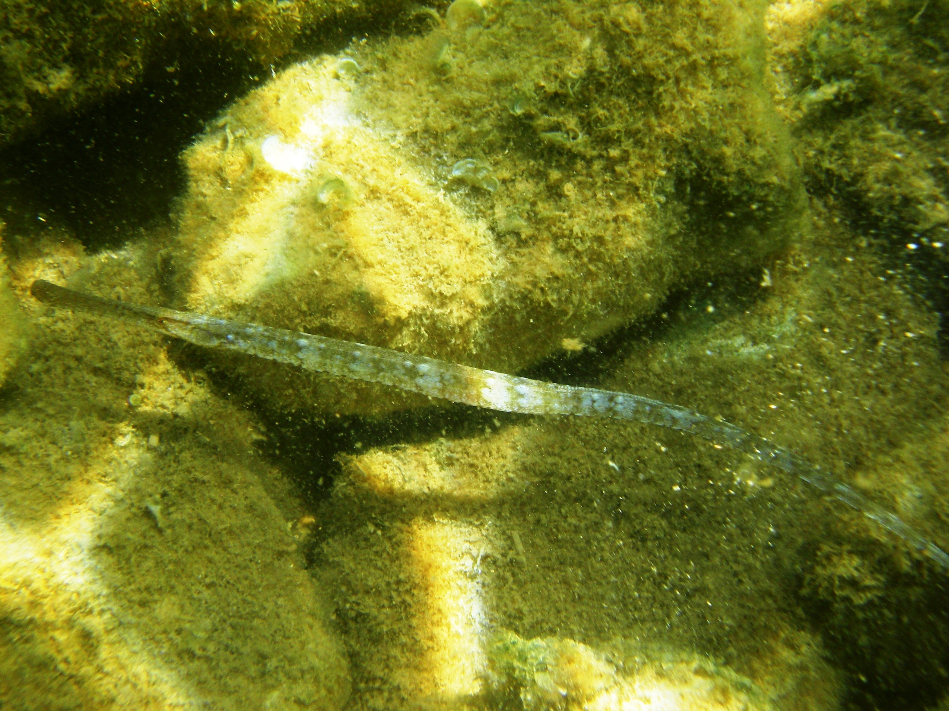 Syngnathus typhlemar Adriatico, isola di Brac (Croatia)